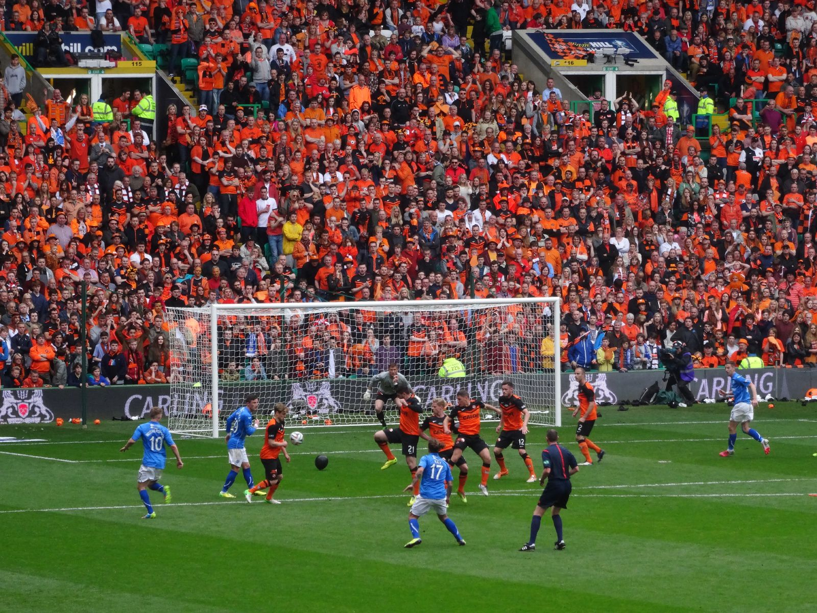 Scottish Cup Final2 31